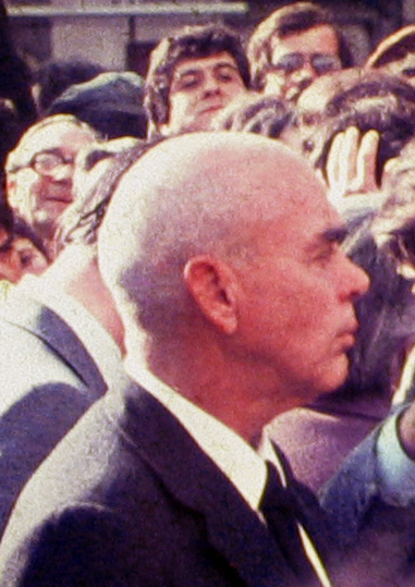 Rosa Coutinho, 1982, was a military of Portugal